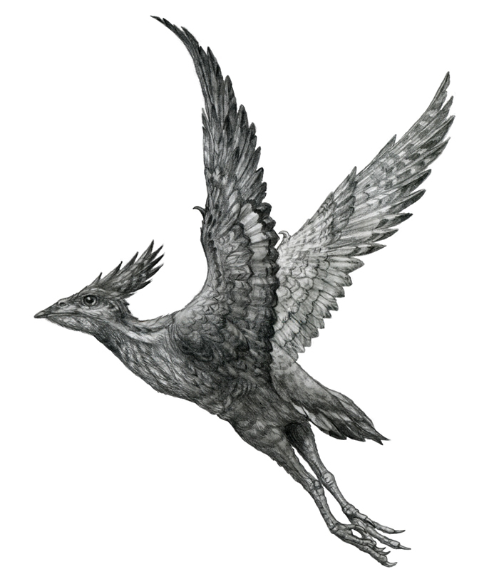 Hongshanornis longicresta, probably one of the most primitive ornithurine birds. Incertae sedis. Hongshanornis.